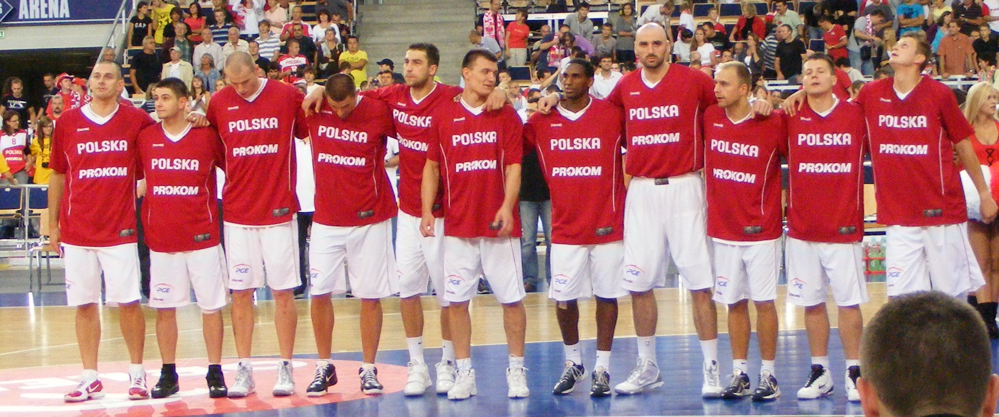 Polish basketball national team 2010